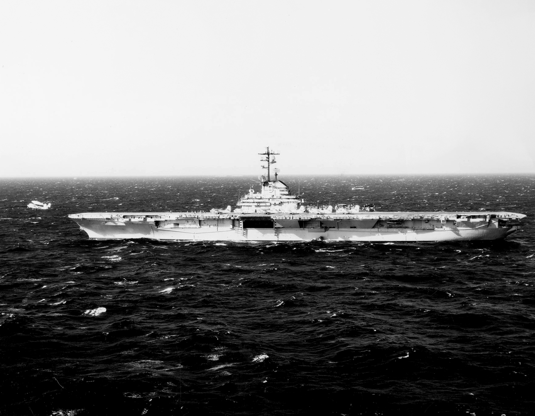 U.S. Navy aircraft carrier USS Essex (CVS-9) launching an Grumman E-1B Tracer from airborne early warning squadron VAW-12 Det.9 Bats, Carrier Antisubmarine Air Group 60 (CVSG-60), in 1964.